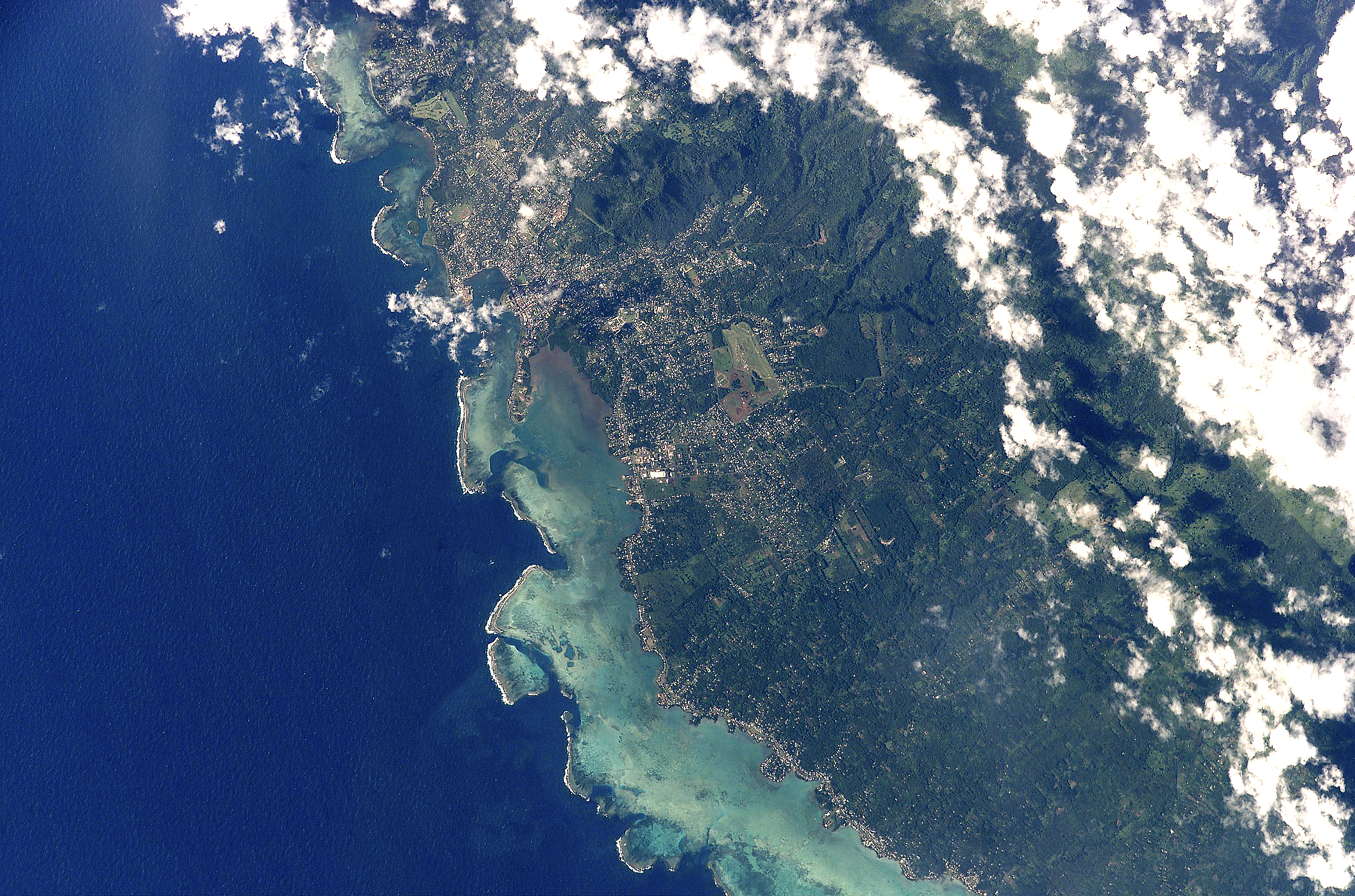 Astronaut Photo of Apia, Samoa taken from the Space Transport System(STS) during mission 111 on June 16, 2002.